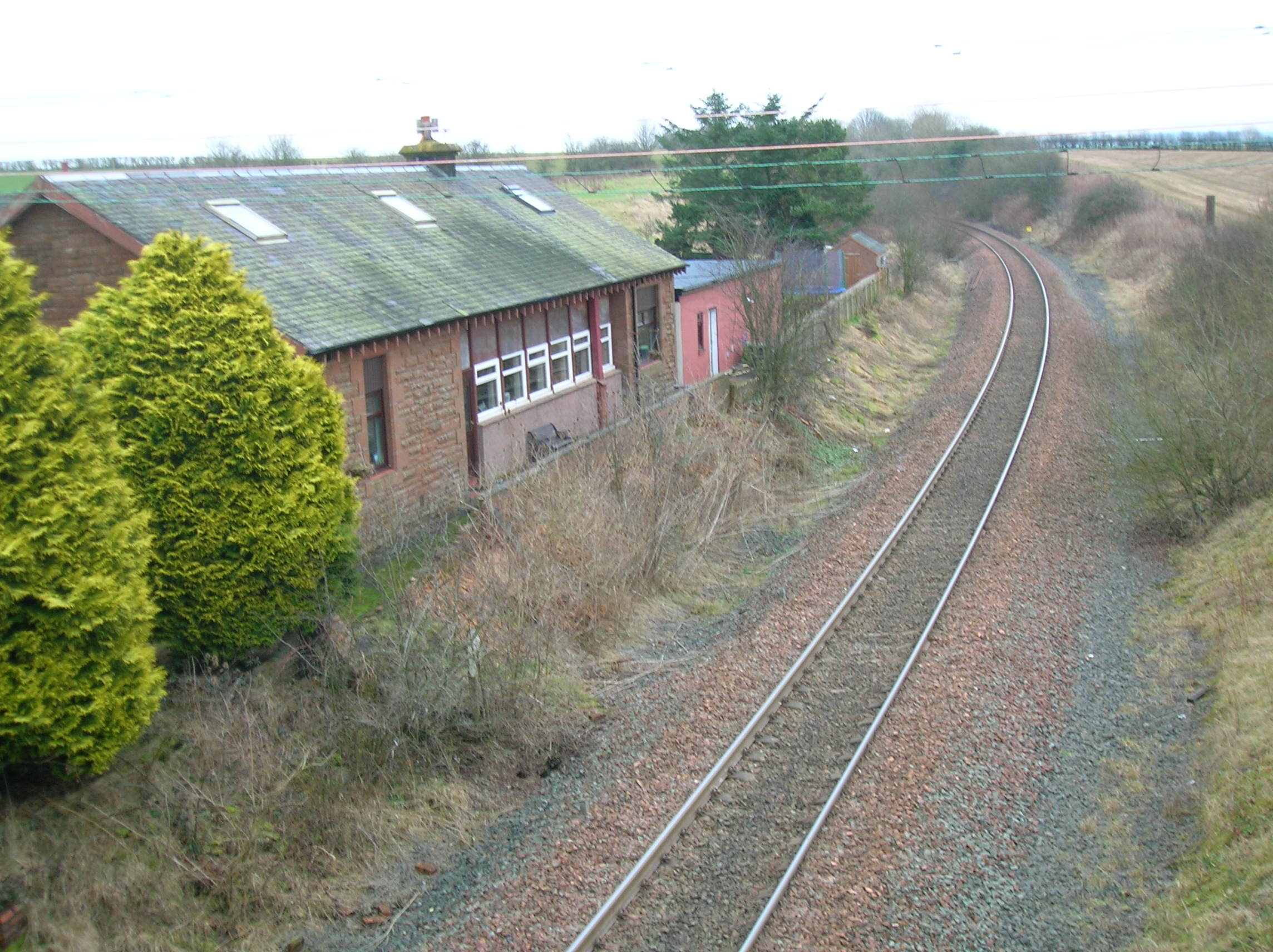 Tarbolton Railway station on the Mauchline to Ayr freight line. Ayrshire, Scotland.